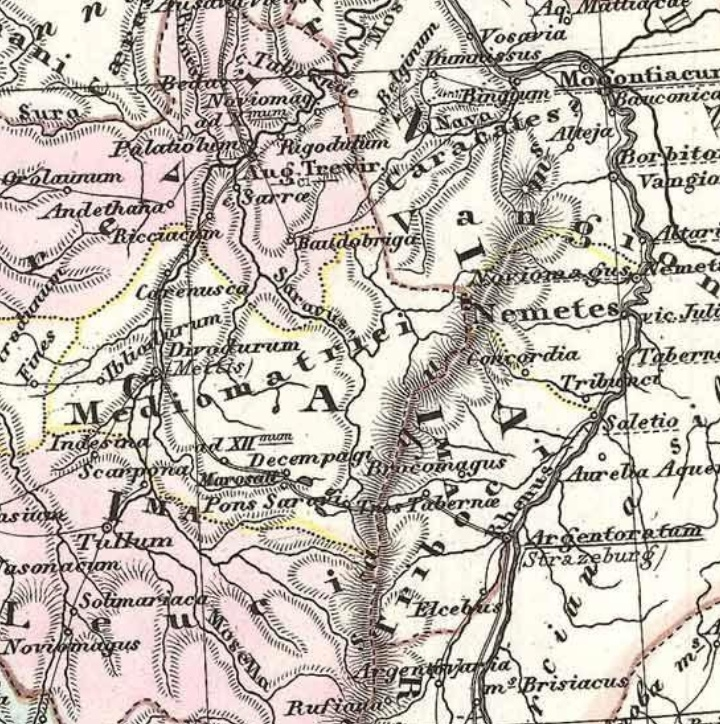 This is a section of Karl Spruner's map "Gallia in Roman Times" cropped to show the territory of the Mediomatrici and some surrounding area. Other information Cropped with Photoshop, no other changes